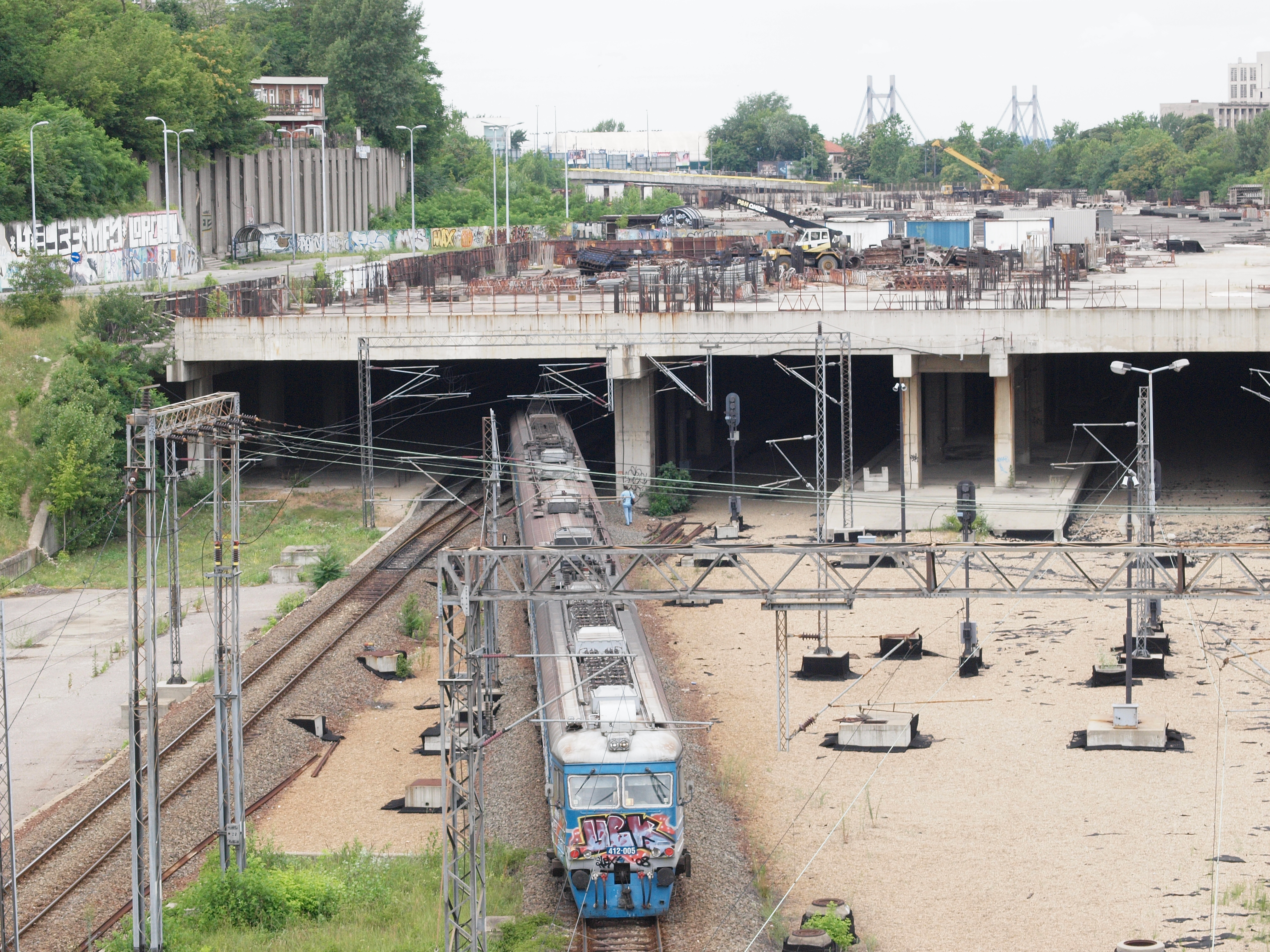 Prokop railway station